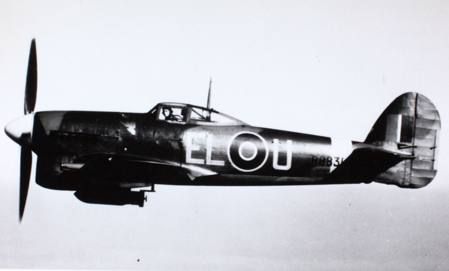 Image from the Charles Daniels Photo Collection album "British Aircraft." SOURCE INSTITUTION: San Diego Air and Space Museum Archive